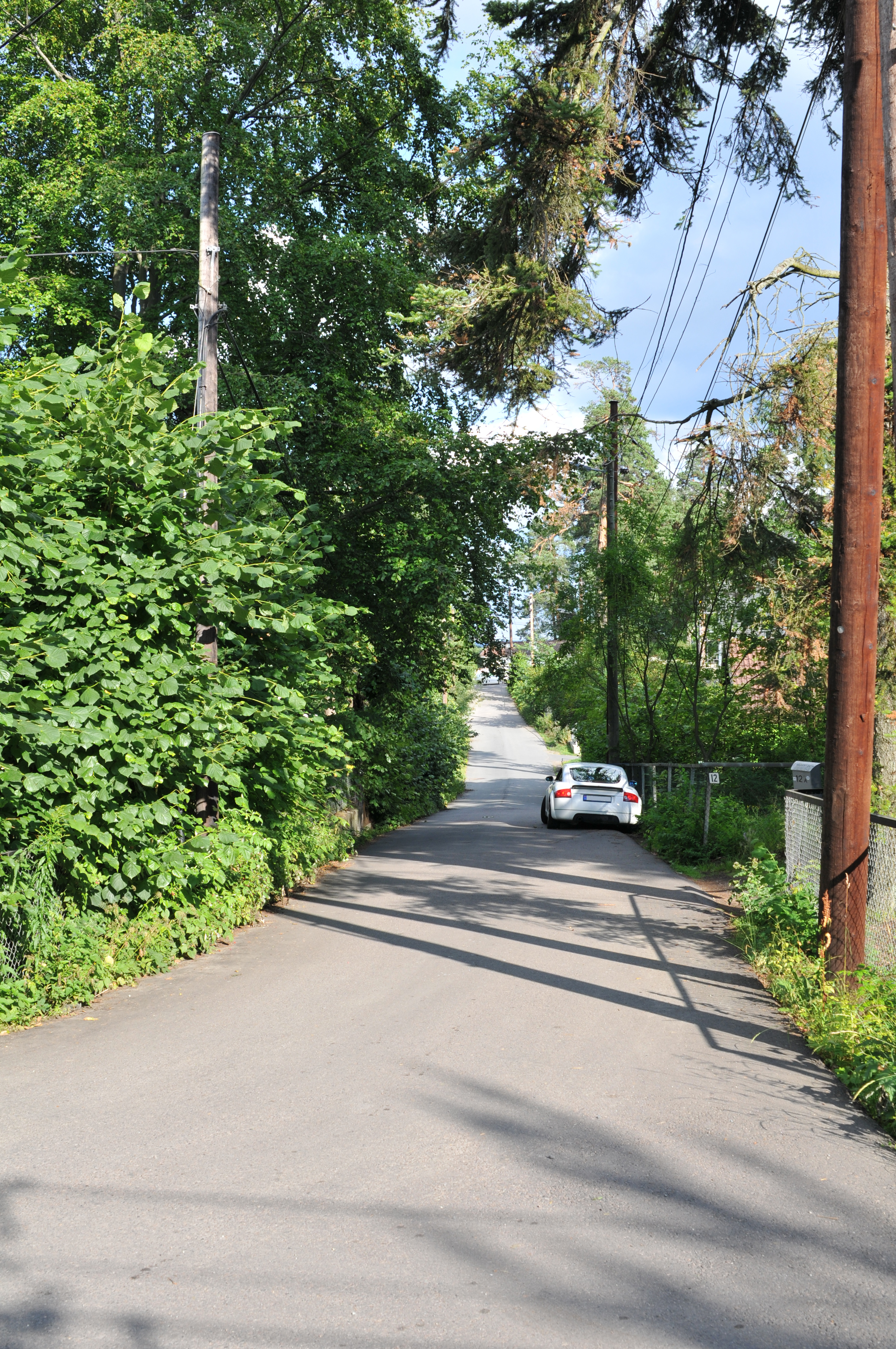 Bestum tverrvei from Øvre Skogvei